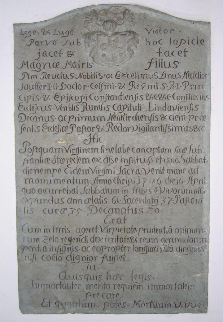 Johann Melchior SAUTER (1686—1746); ledger